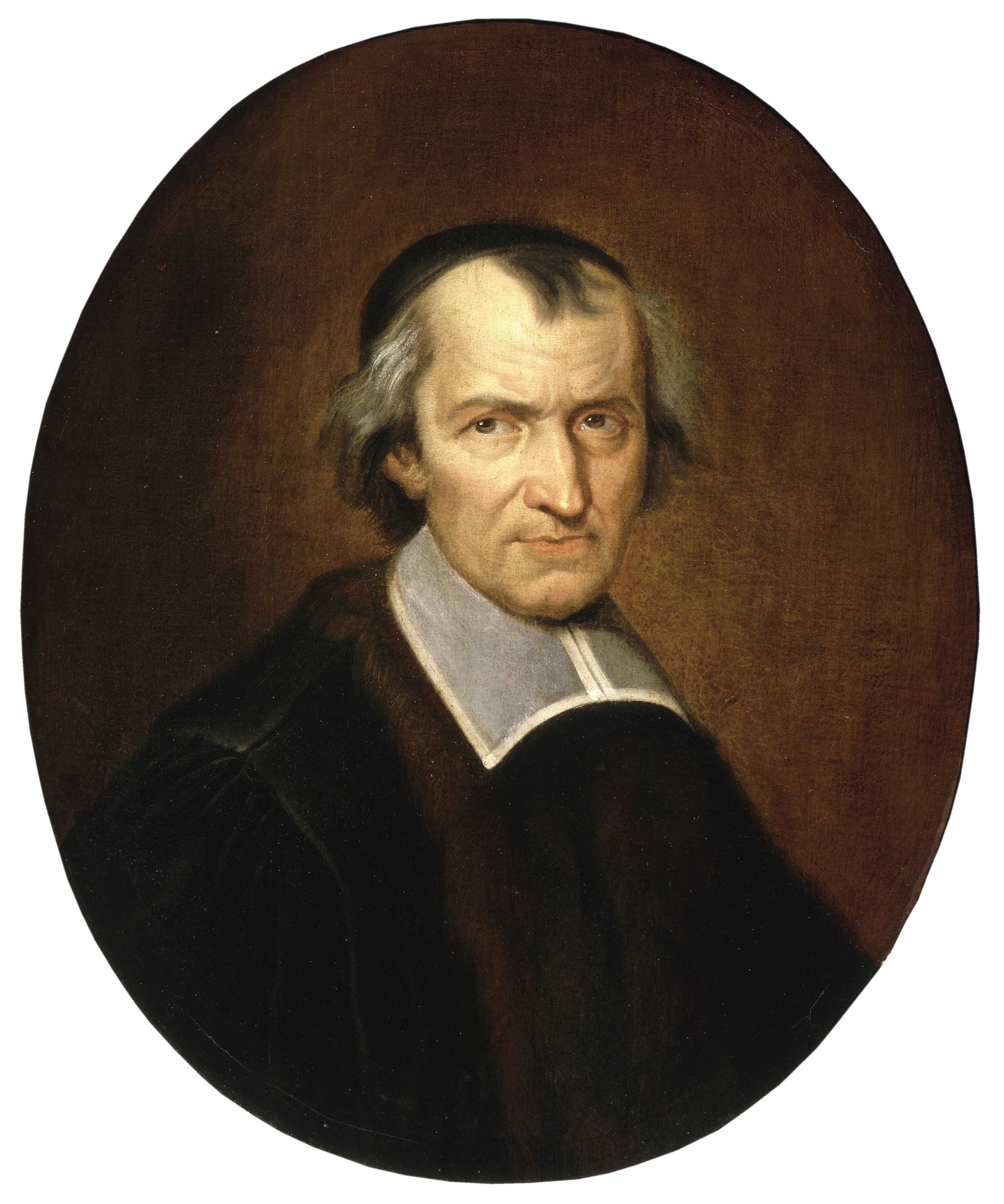 Antoine Arnauld (1612 – 1694)